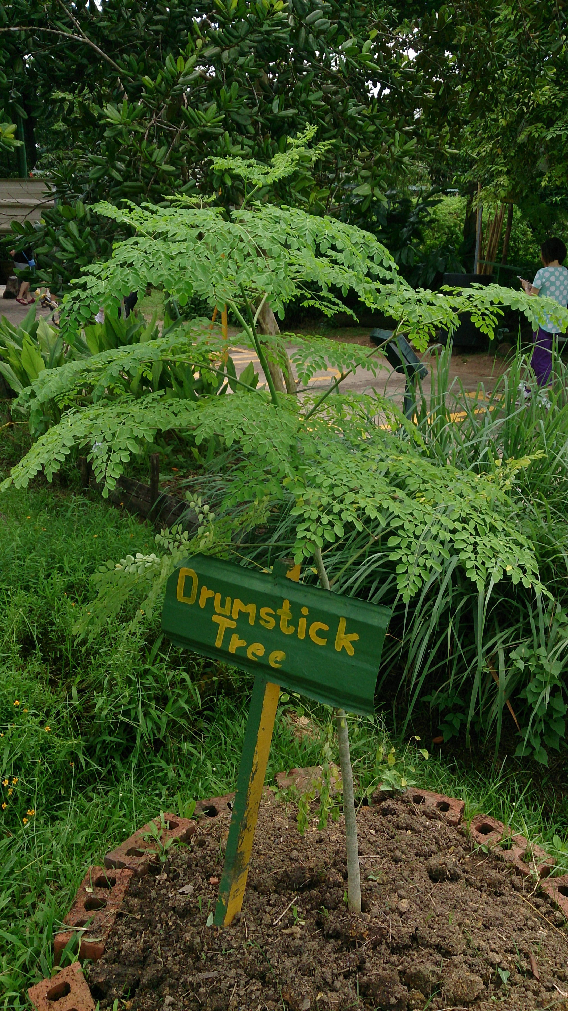 Moringa oleifera. Common names: Drumstick Tree. Horseradish Tree. Native to India. In traditional medicine, the leaves and pods are eaten as laxatives. The seed oil is used to treat rheumatism while the bark is used to treat headaches. For post-natal care, the young leaves are eaten to stimulate lactation.